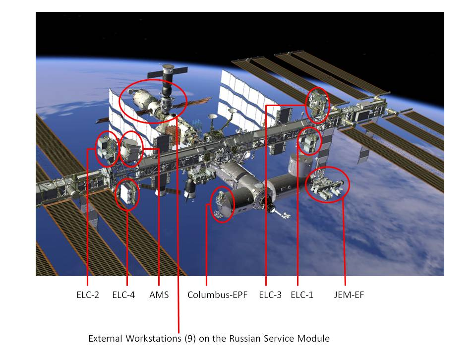 Computer-generated image of the completed International Space Station with external workstations. Image courtesy of NASA.